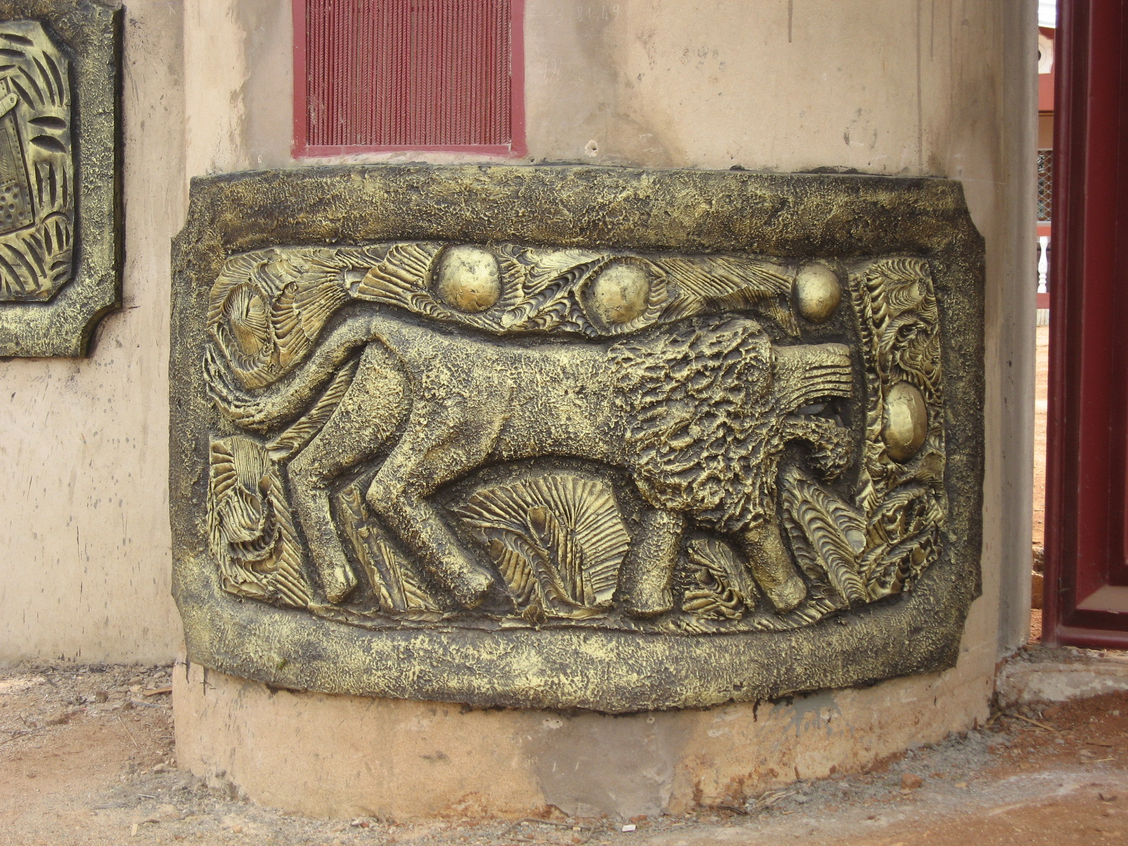 Traditional bronze relief on the outer wall of Bakassa chefferie just outside of Bana, Cameroon.